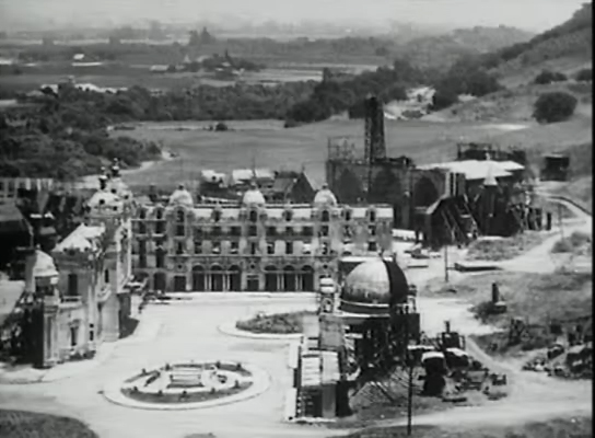 Scenography for the movie Foolish wives (1922).